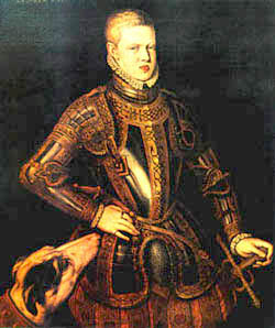 Sebastian I "the Desired" (in Portuguese, Sebastião I, pron. IPA /sɨβɐʃ'tjɐ̃w̃/, o Desejado; born in Lisbon, January 20, 1554; died at Alcazarquivir, August 4, 1578) was the sixteenth king of Portugal. He was the son of Prince John of Portugal and his wife, Joan of Habsburg, and was the grandson of John III.